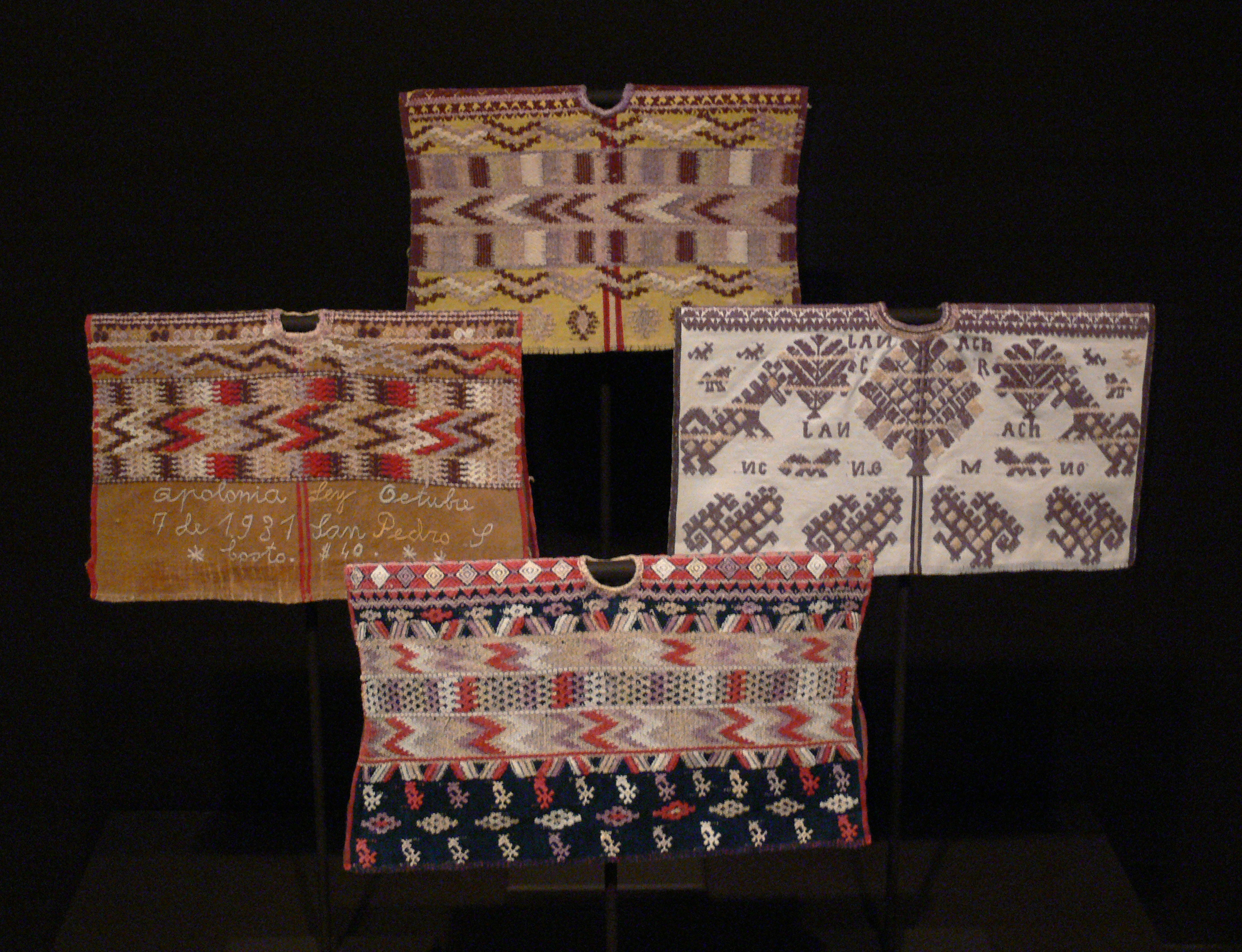 Four huipils for a figure of the Virgin of the Rosary; Guatemala, Guatemala, San Juan Sacatepequez; Kakchiquel Maya people; 1930s; cotton and silk Dallas Museum of Art, Dallas, Texas, the Carolyn C. and Dan C. Williams Collection of Guatemalan Textiles, gift of Carolyn C. and Dan C. Williams